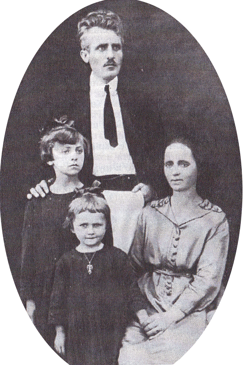 Family of Nikola and Zoya Markovski